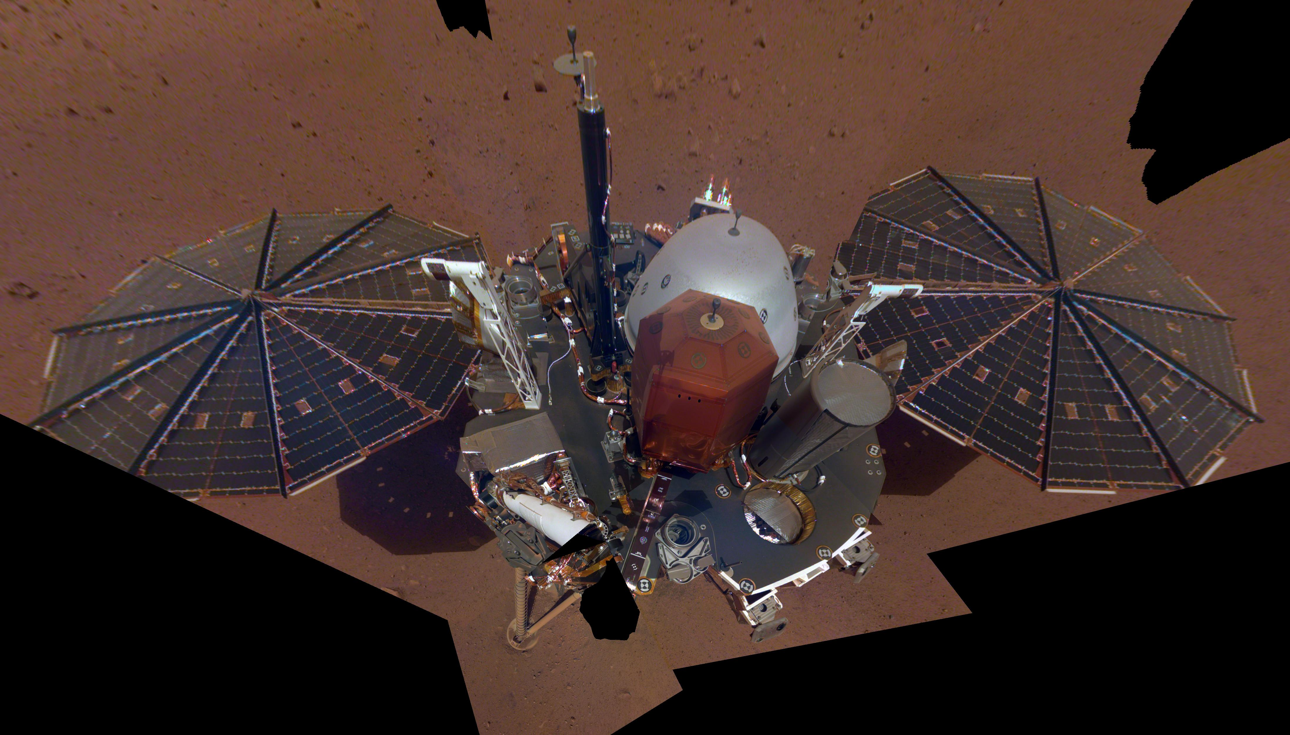 PIA22876: InSight's First Selfie This is NASA InSight's first full selfie on Mars. It displays the lander's solar panels and deck. On top of the deck are its science instruments, weather sensor booms and UHF antenna. The selfie is made up of 11 images which were taken by its Instrument Deployment Camera, located on the elbow of its robotic arm. Those images are then stitched together into a mosaic. JPL manages InSight for NASA's Science Mission Directorate. InSight is part of NASA's Discovery Program, managed by the agency's Marshall Space Flight Center in Huntsville, Alabama. Lockheed Martin Space in Denver built the InSight spacecraft, including its cruise stage and lander, and supports spacecraft operations for the mission. A number of European partners, including France's Centre National d'Études Spatiales (CNES) and the German Aerospace Center (DLR), are supporting the InSight mission. CNES and the Institut de Physique du Globe de Paris (IPGP) provided the Seismic Experiment for Interior Structure (SEIS) instrument, with significant contributions from the Max Planck Institute for Solar System Research (MPS) in Germany, the Swiss Institute of Technology (ETH) in Switzerland, Imperial College and Oxford University in the United Kingdom, and JPL. DLR provided the Heat Flow and Physical Properties Package (HP3) instrument, with significant contributions from the Space Research Center (CBK) of the Polish Academy of Sciences and Astronika in Poland. Spain's Centro de Astrobiología (CAB) supplied the wind sensors. For more information about the mission, go to